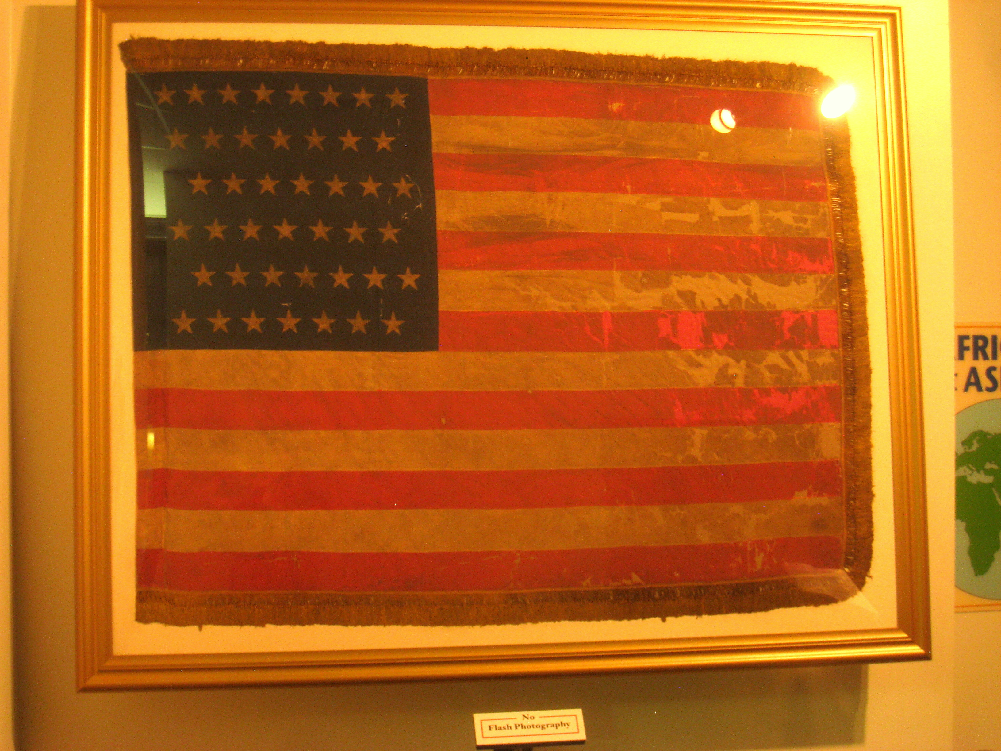 Flag from Robert Peary's Greenland Expedition (1891-1892); thirteen stripes and 43 stars. Exhibit in the Academy of Natural Sciences, 1900 Benjamin Franklin Parkway, Philadelphia, Pennsylvania, USA. Photography was permitted in this area of the museum without restrictions.